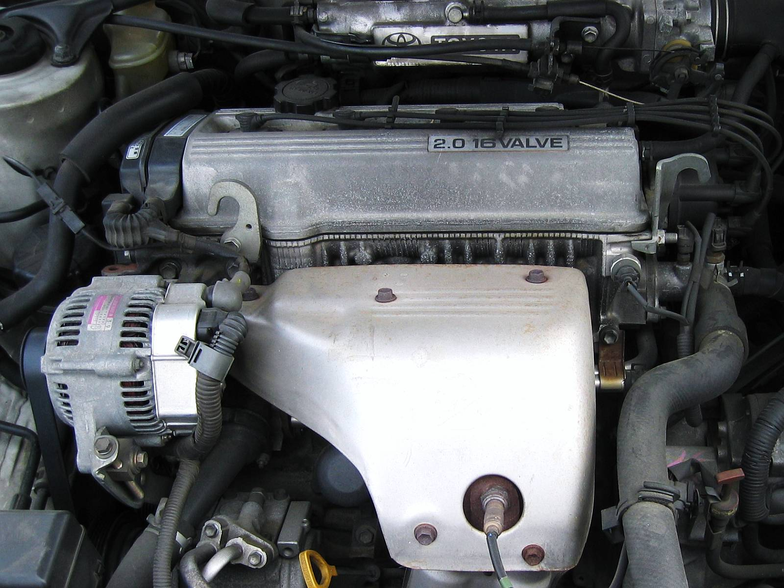 3S-FE engine on Toyota Curren XS 4AT (2006).